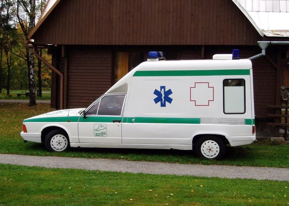 Ambulance Tatra 613 SV, Safety Car from GP Brno, Photo: Ondrej Ertl, 2005, Bečvy, Czech Republic